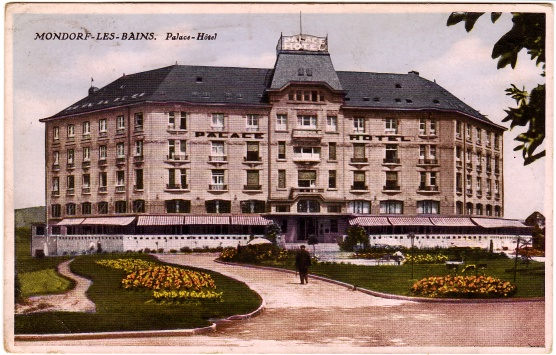 The Palace Hotel of Mondorf-les-Bains, Luxembourg, which was the site of the Allied POW camp "Ashcan" in 1945.